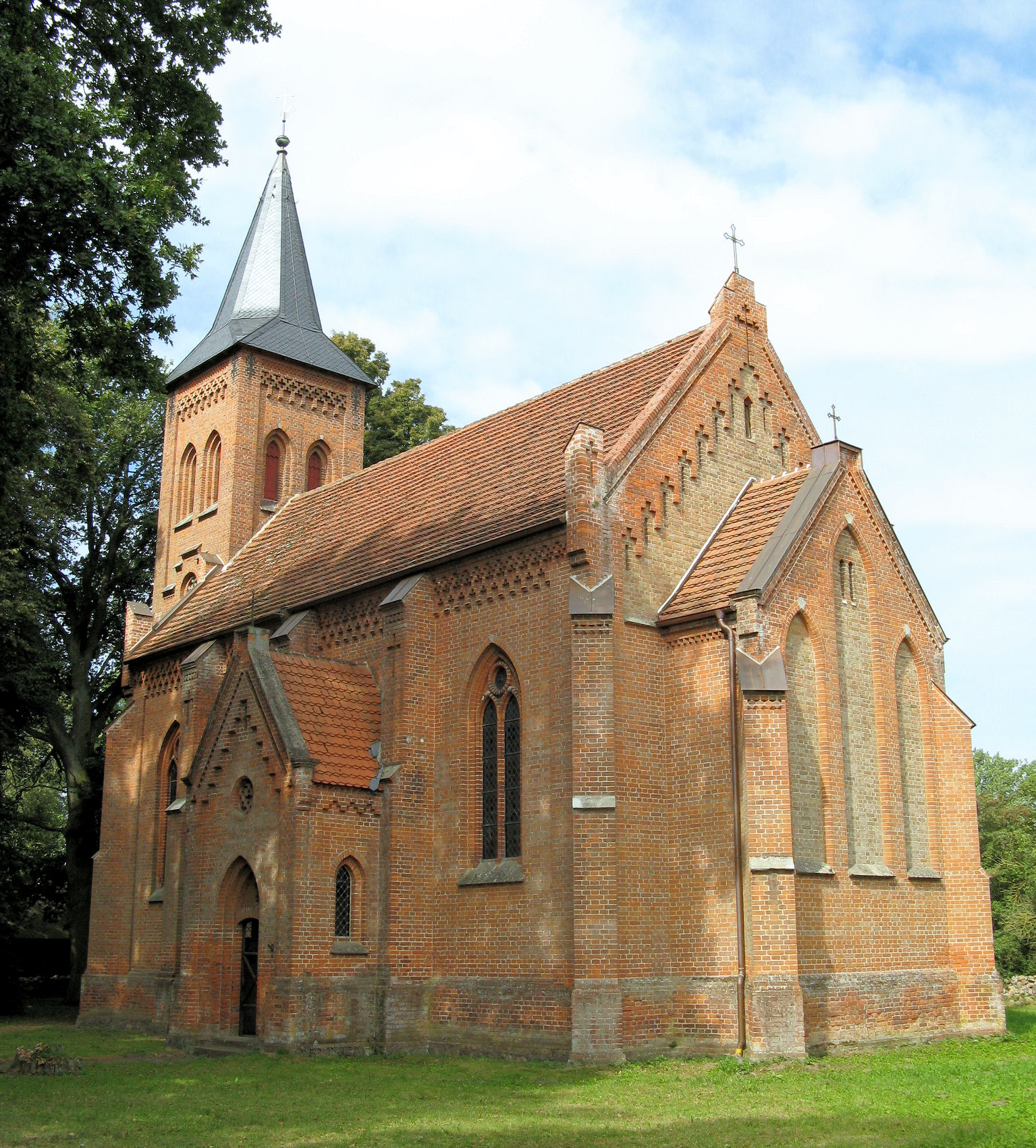 Church in Minzow, disctrict Müritz, Mecklenburg-Vorpommern, Germany